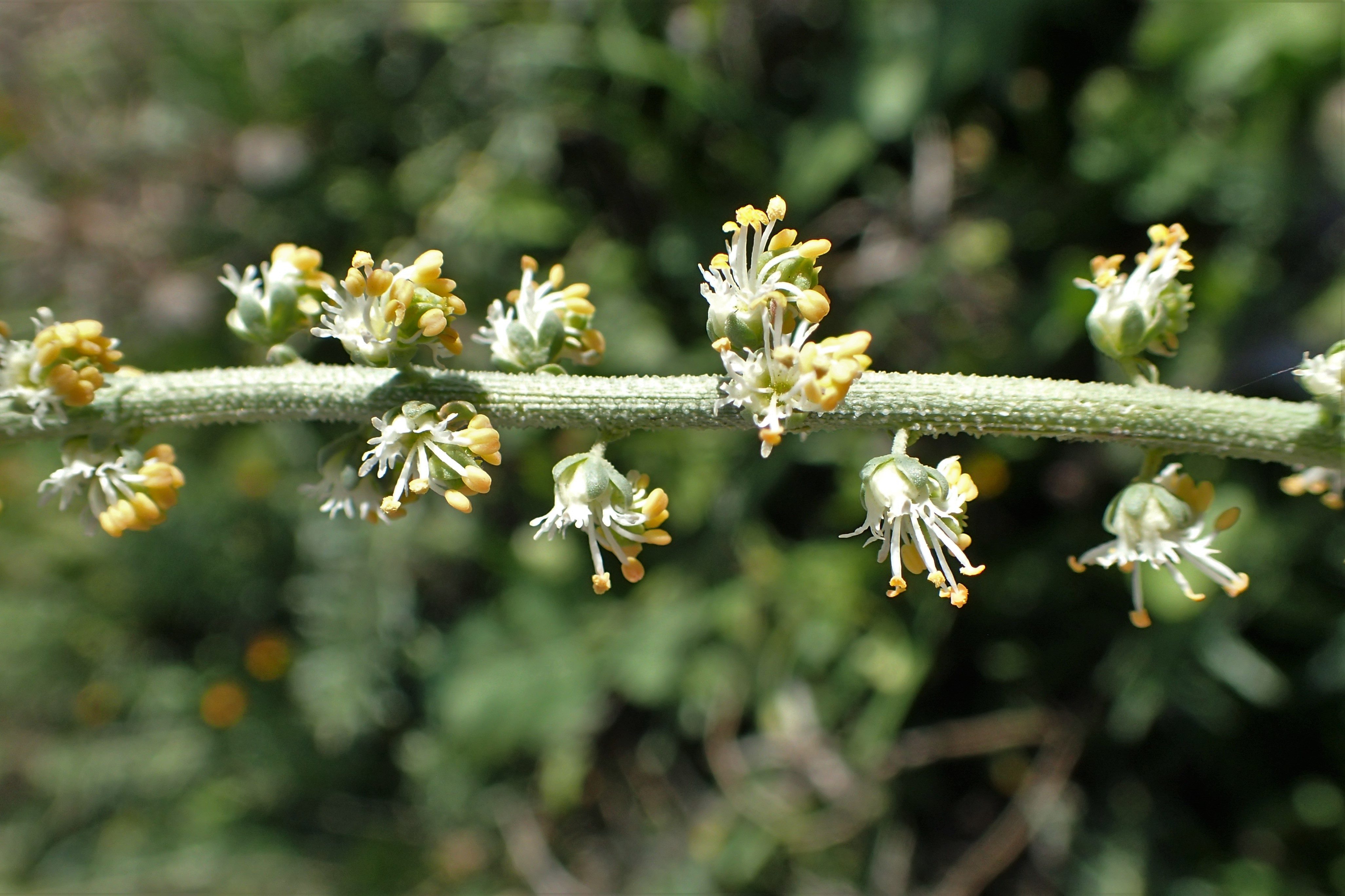 Caylusea hexagyna in Saidate (Marrakesh-Safi, Morocco)